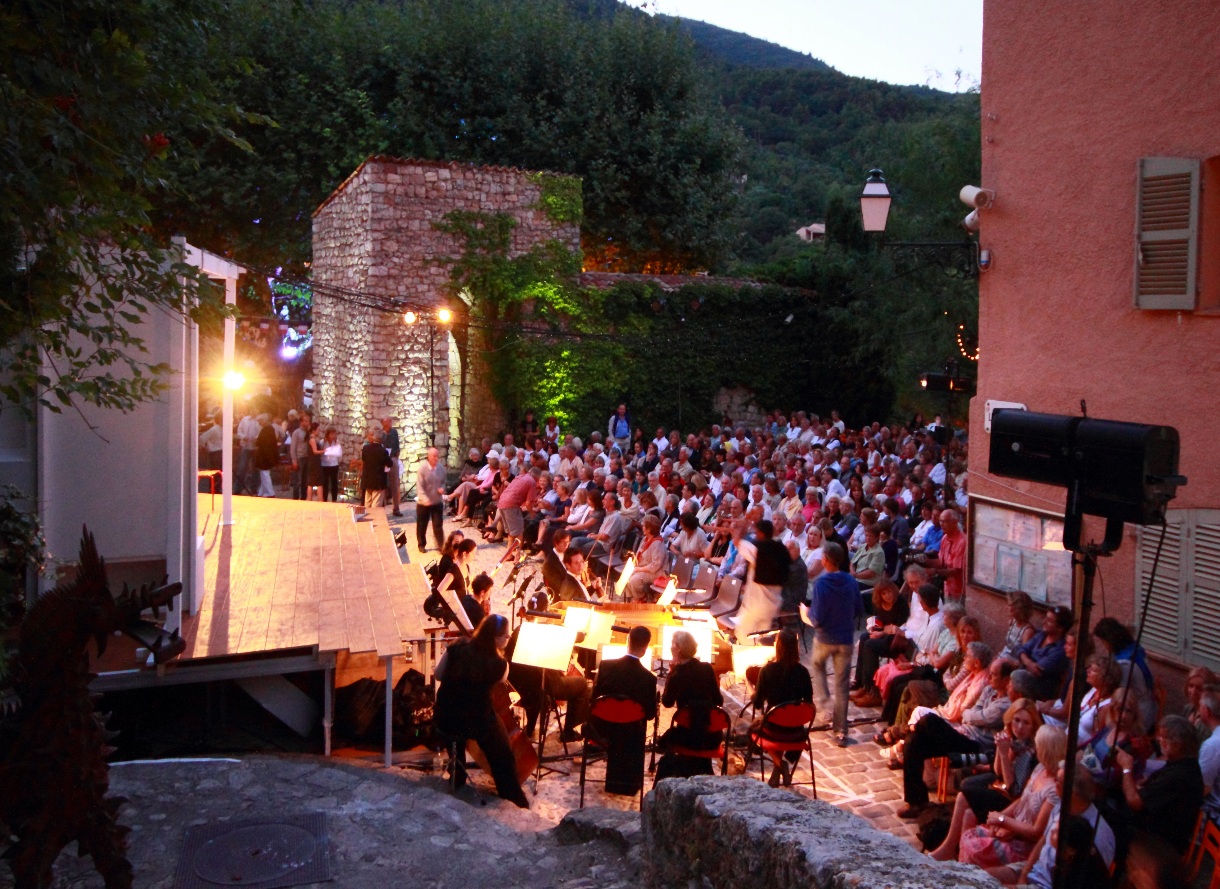 A performance of Cosi fan Tutti